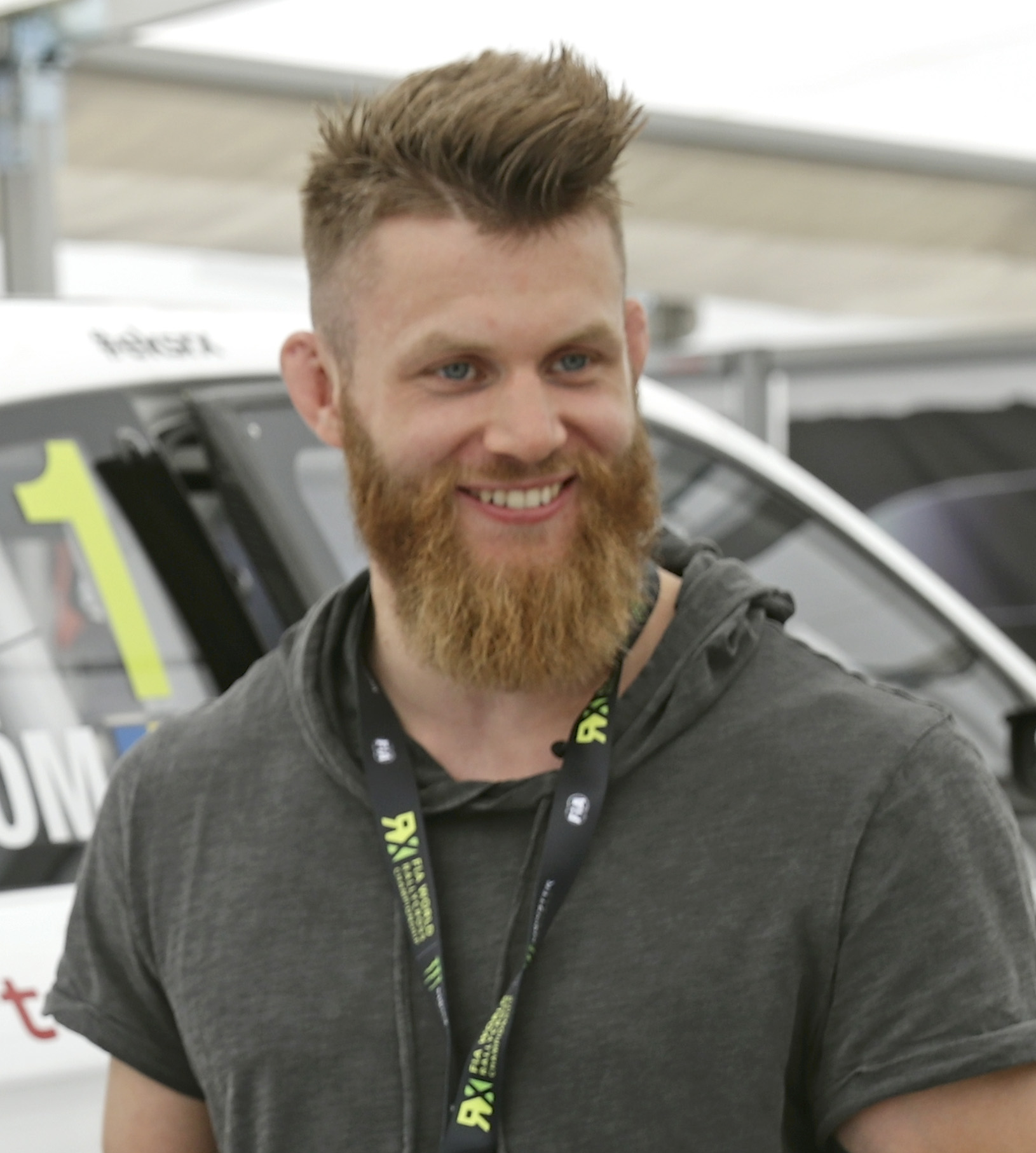 2017 FIA World Rallycross Championship // Round 06, Hell // Credit: EKS/Bodo Kräling